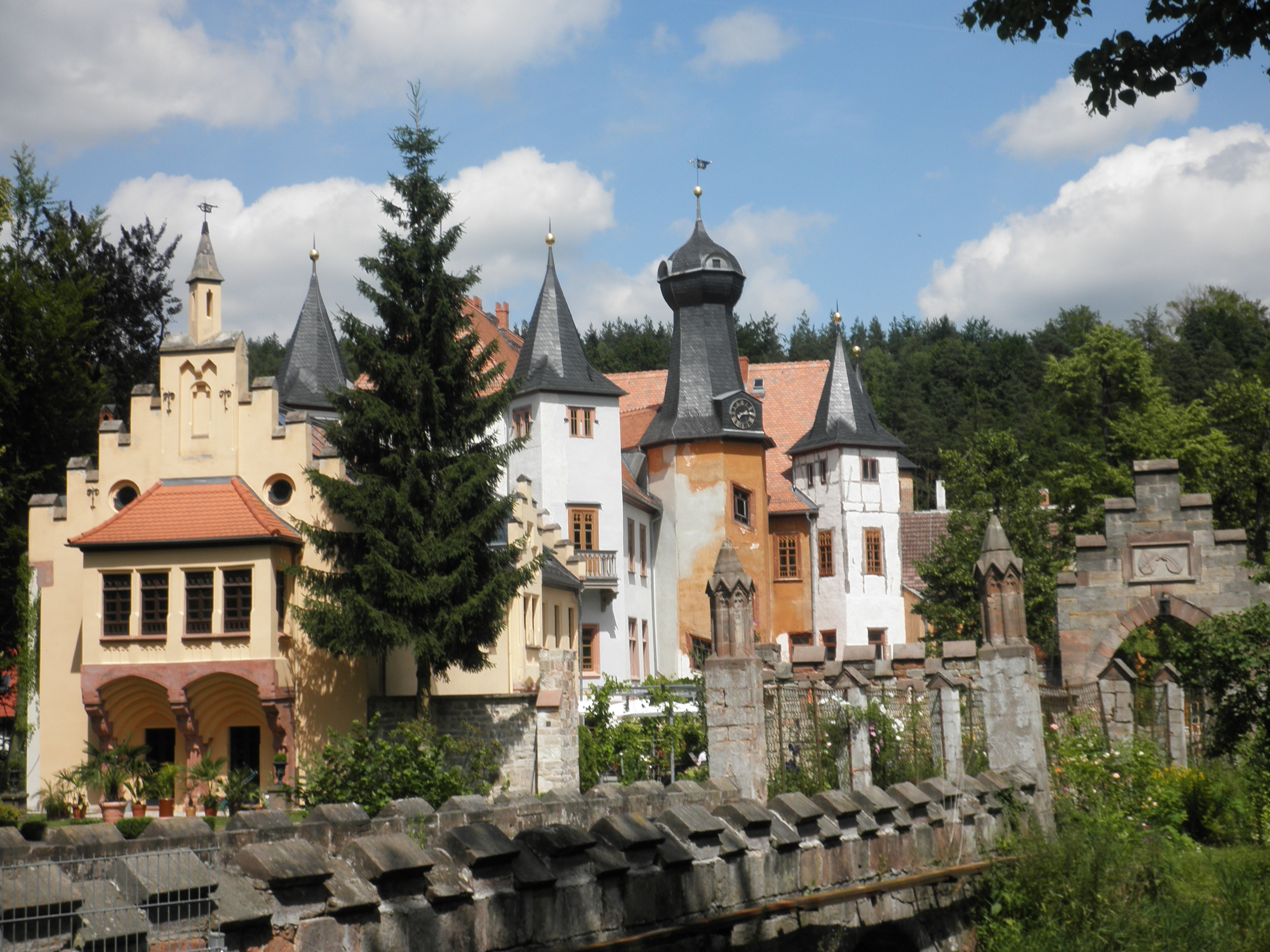 Castle in Wolfersdorf in Thuringia